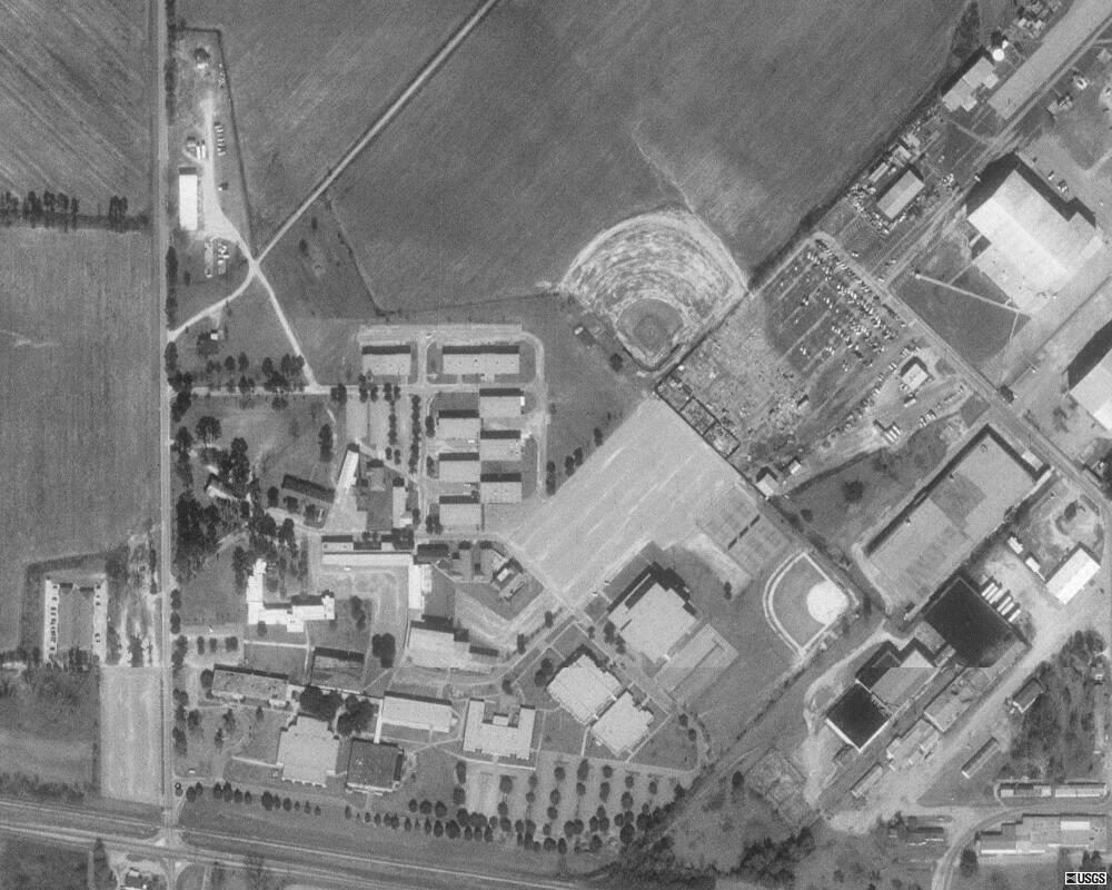 Aerial image of Wallace Community College